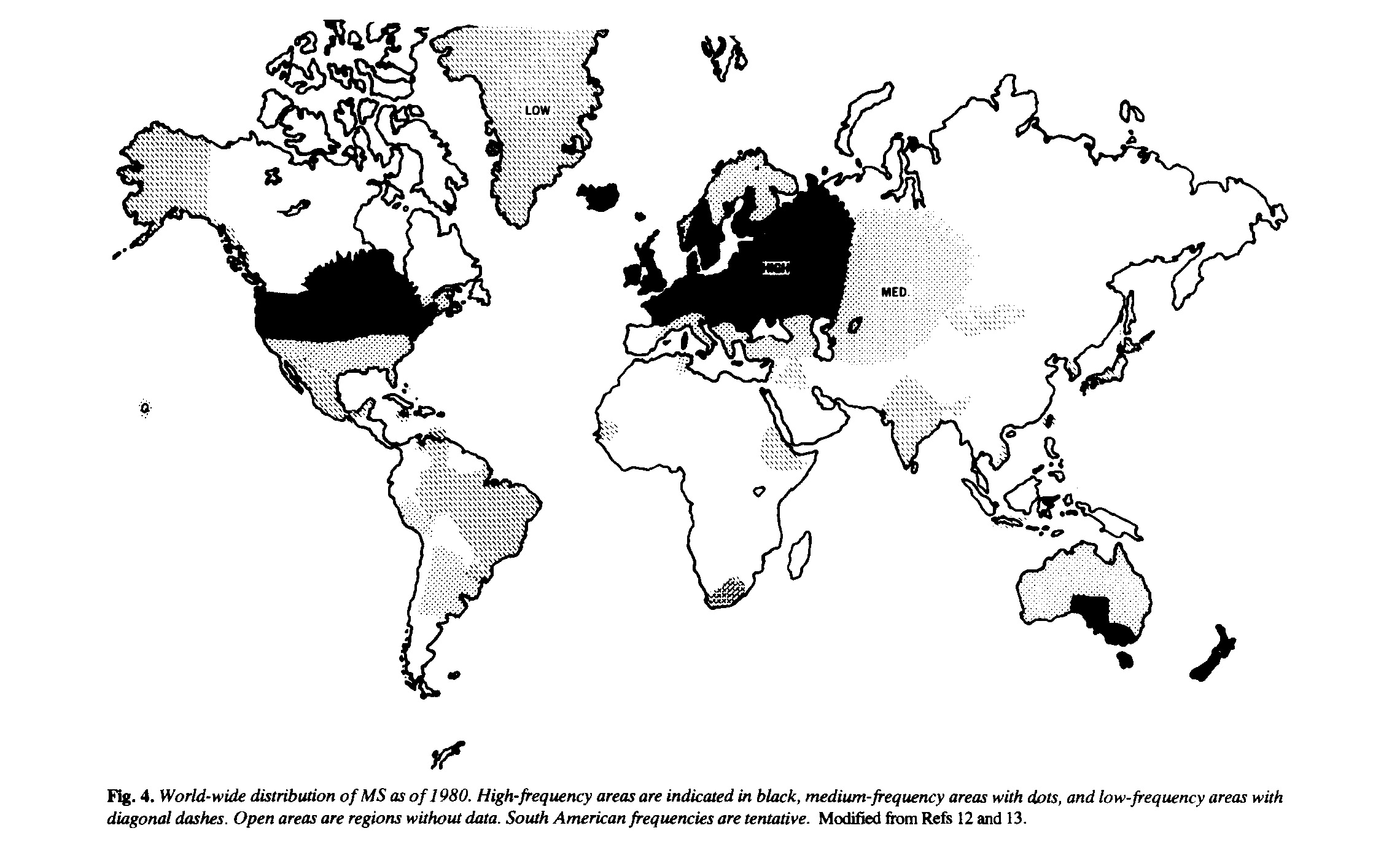 John Kurtzke world map of MS distribution, as published in TINS (Trends in Neurosciences) Volume 6, 1983, Pages 75–80